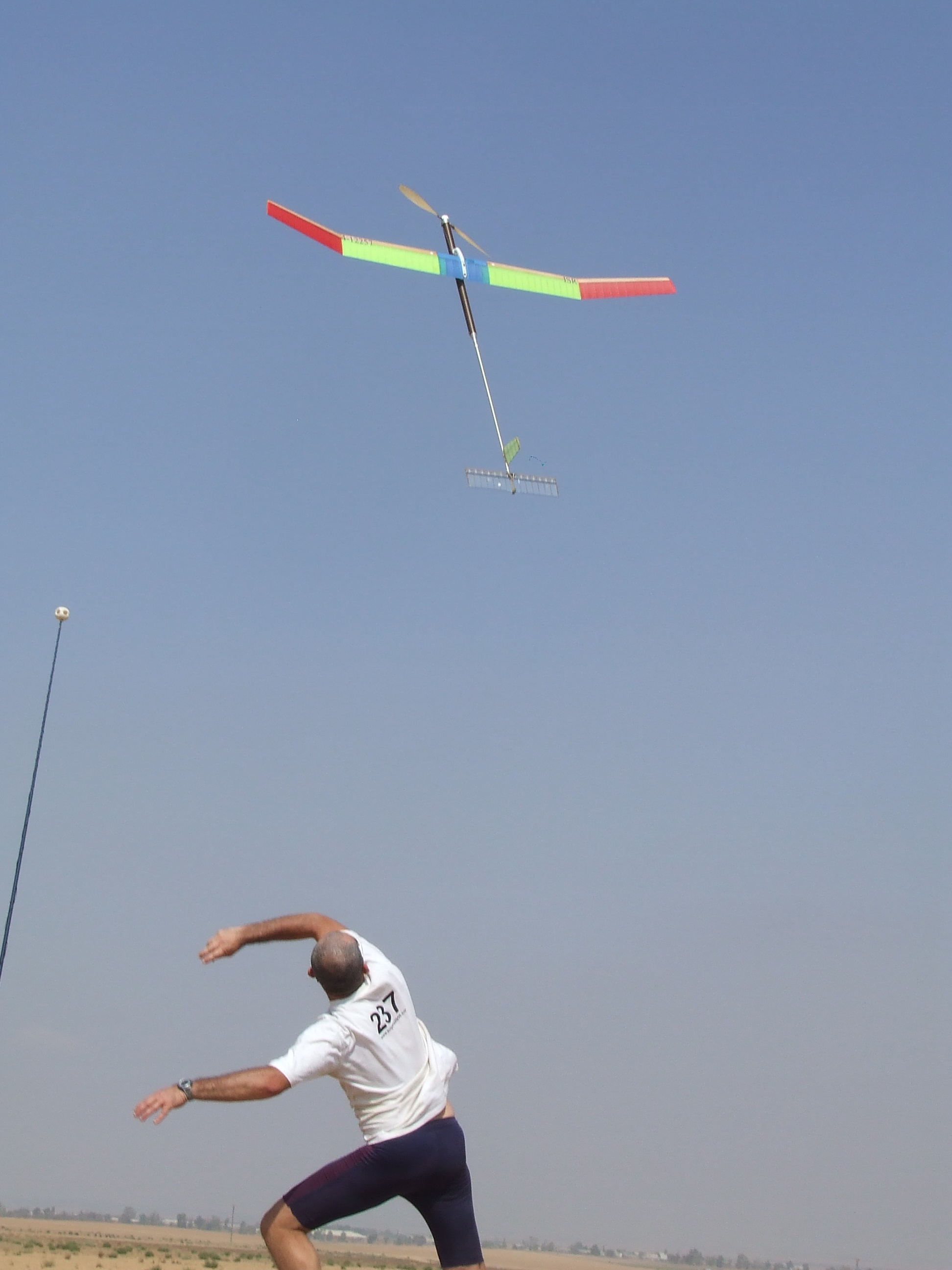 F1B aeromodel throwing during Sukkot contest in Israel